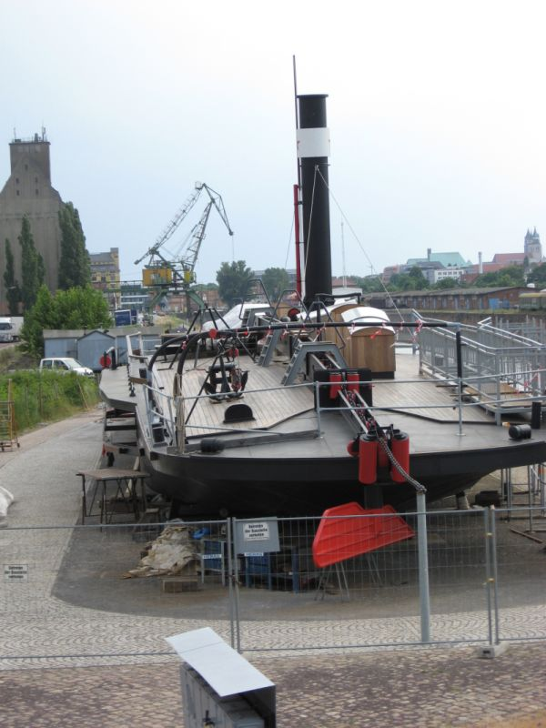 Kettendampfer Gustav Zeuner from behind during restauration in Magdeburg/Germany